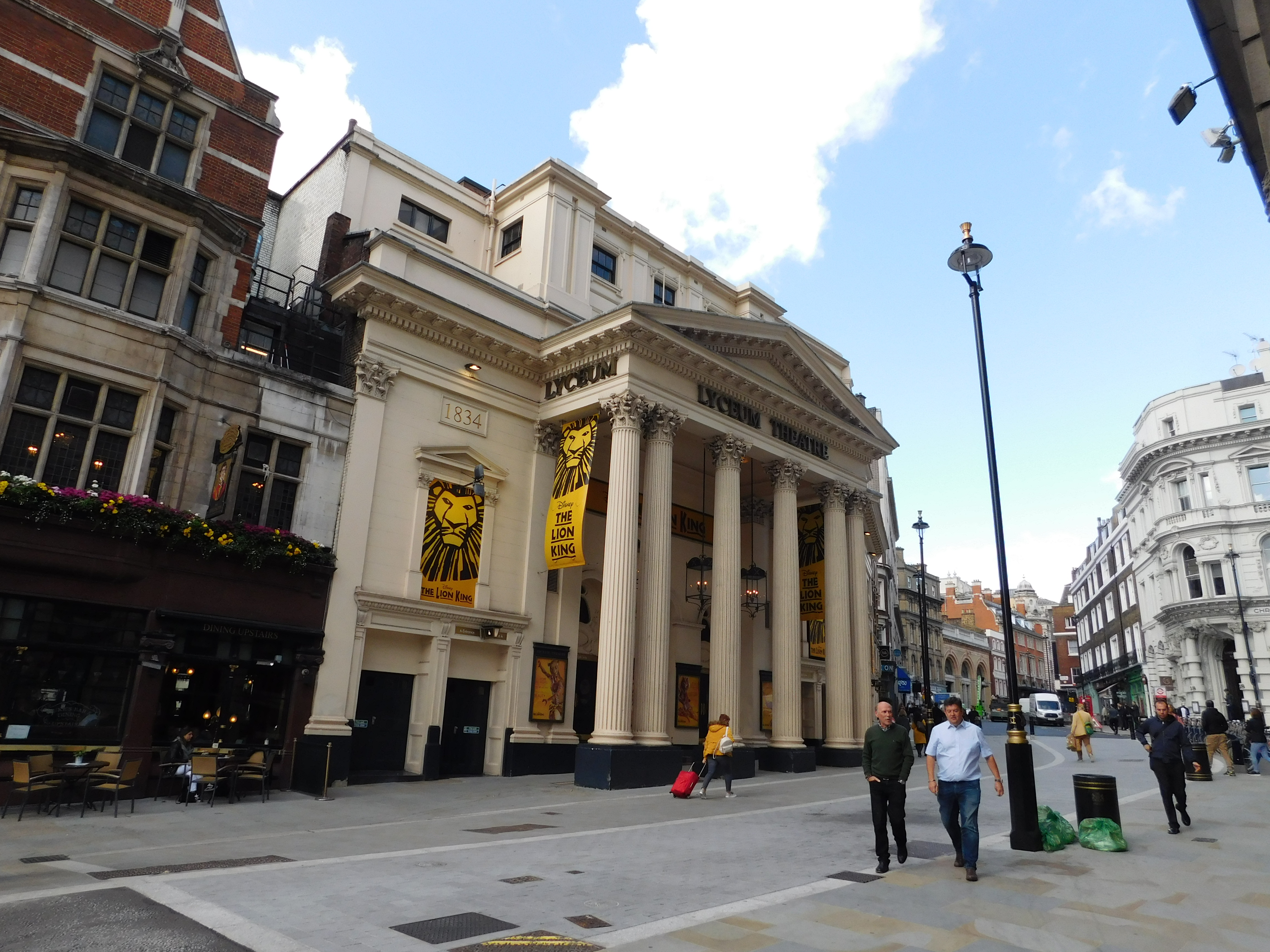 Lyceum Theatre Wikidata has entry Q1661445 with data related to this item.